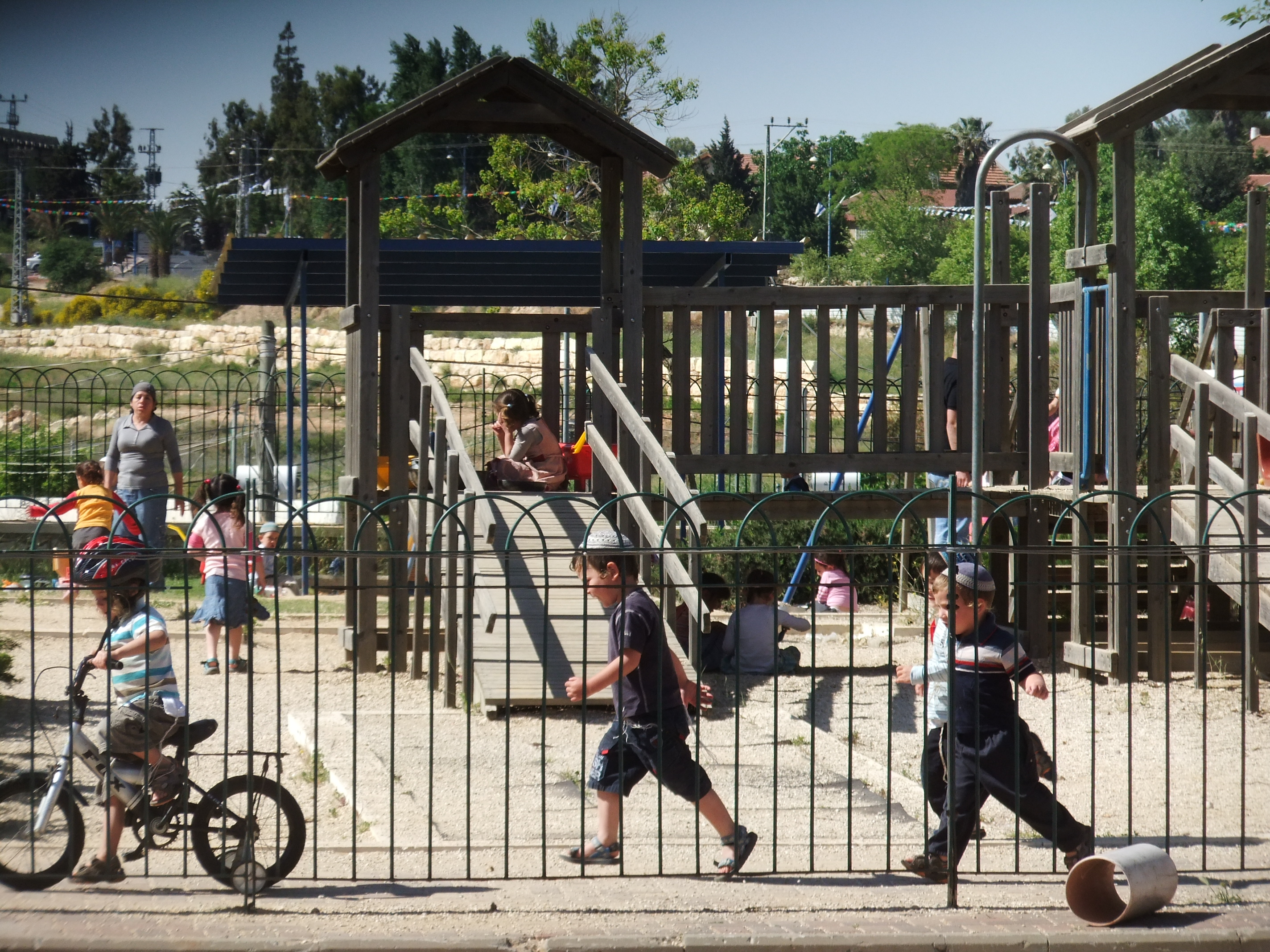 Playground in Beit El